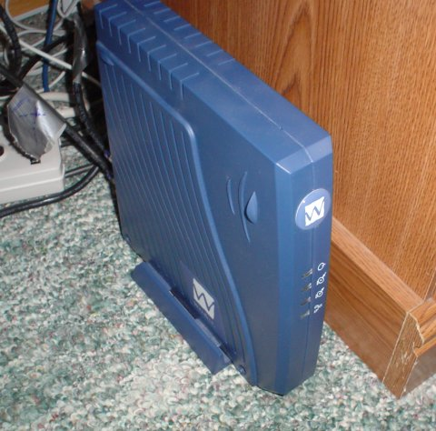 This is the Wild Blue satellite modem that we have here at home. I took this in March of 2006. Jesster79 05:14, 2 March 2006 (UTC)